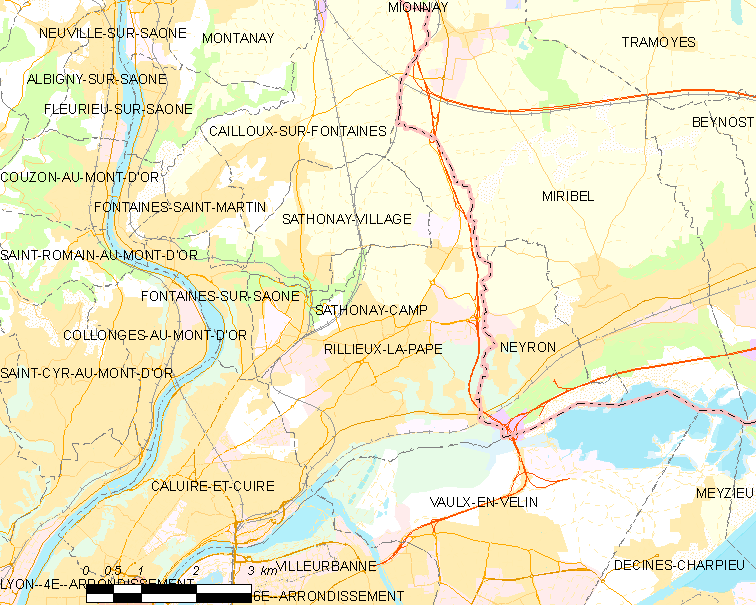 Map of French municipality